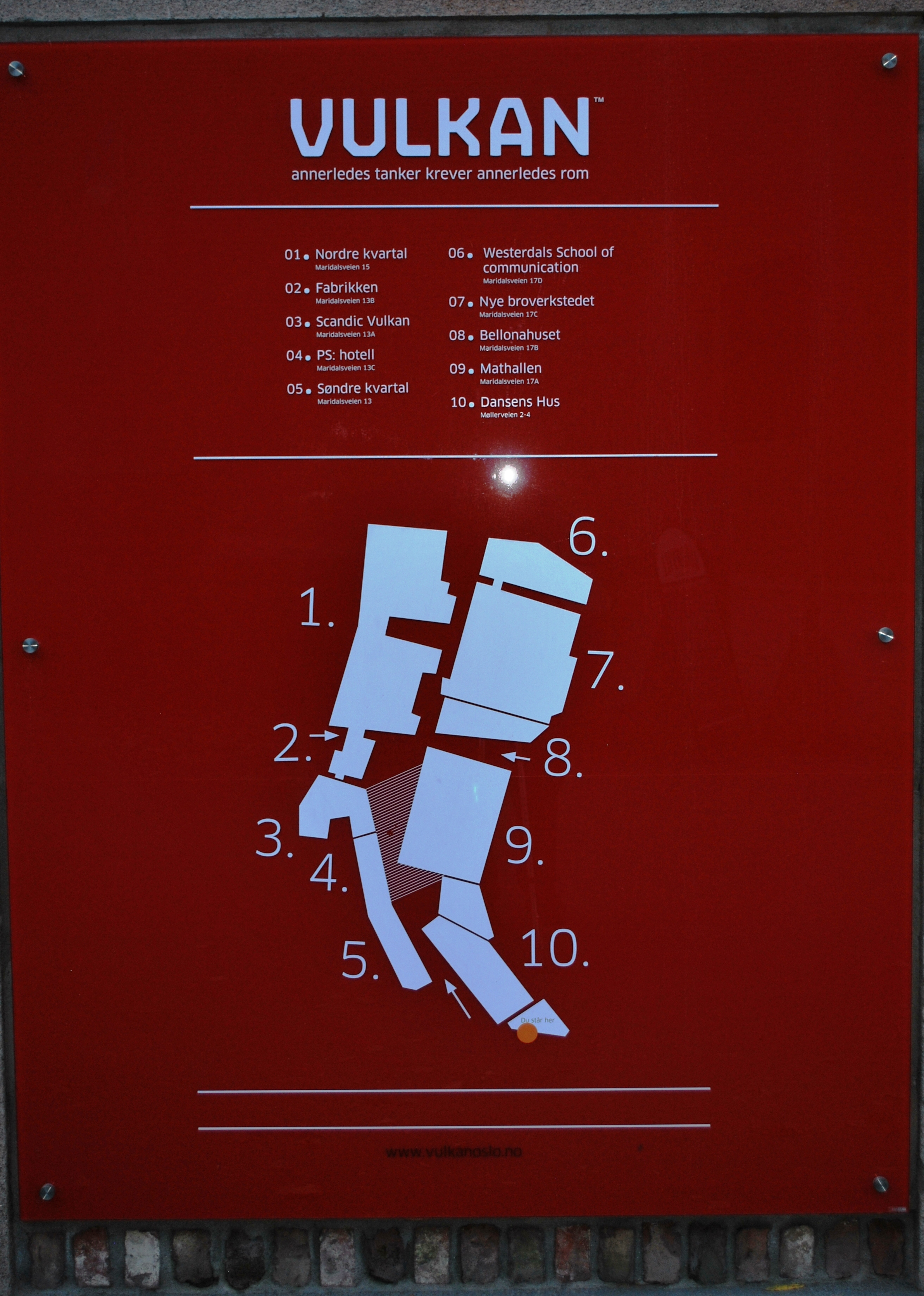 Map over Vulkan, Oslo